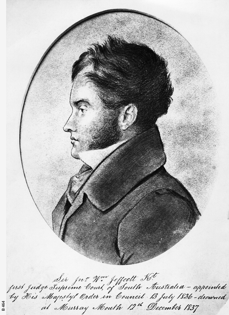 Sir John William Jeffcott, first Judge in the Supreme Court fof South Australia. He was appointed by His Majesty's Order in Council on 13th July 1836. He was drowned at the Murray Mouth on the 12th December 1837 (Photograph; 19.0 cm x 13.6 cm)